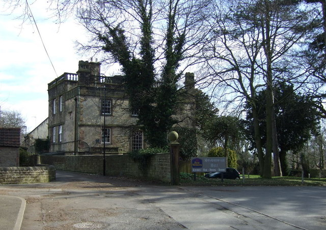 Best Western Mosborough Hall Hotel